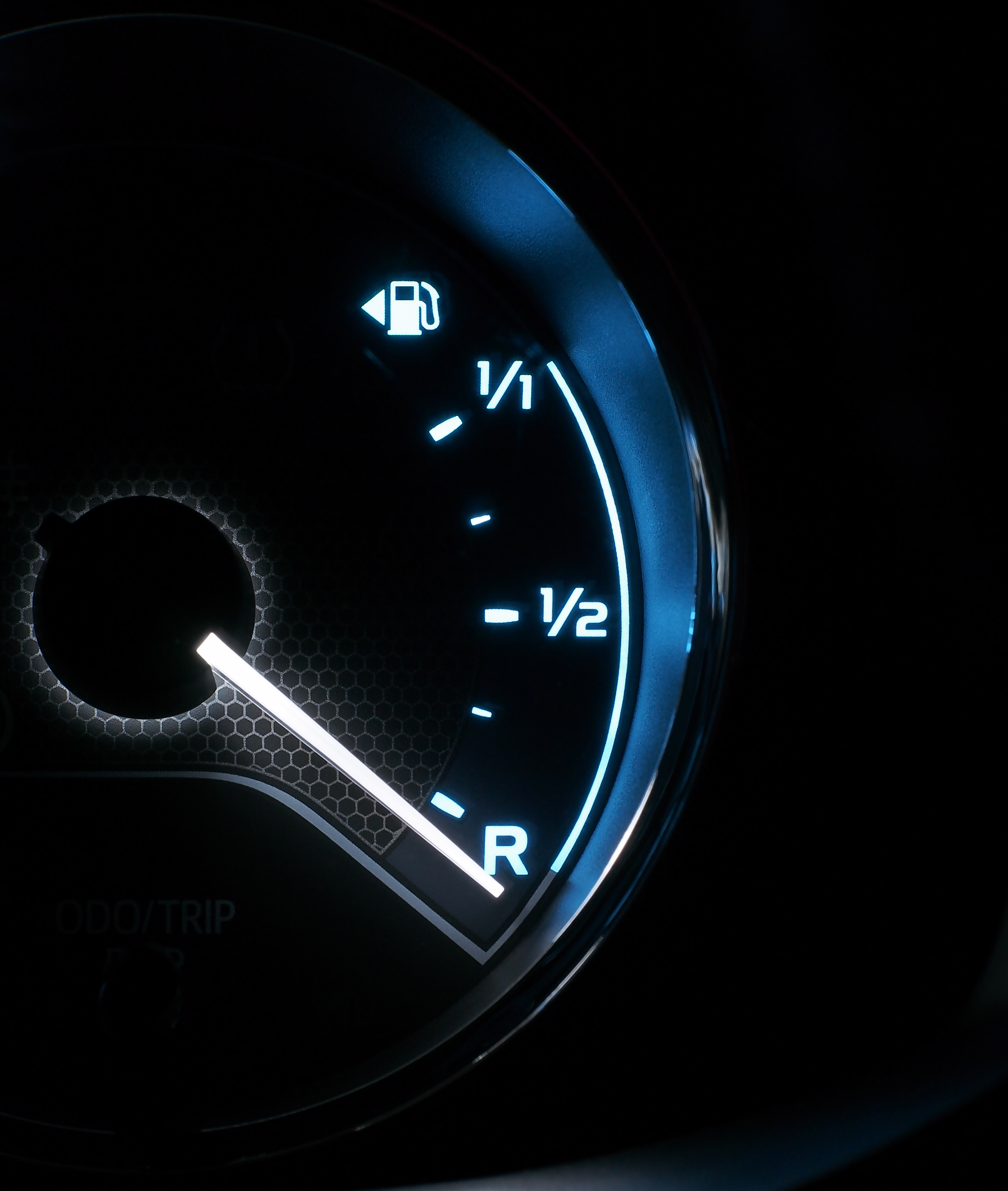 Fuel gauge of Toyota Corolla (E170).